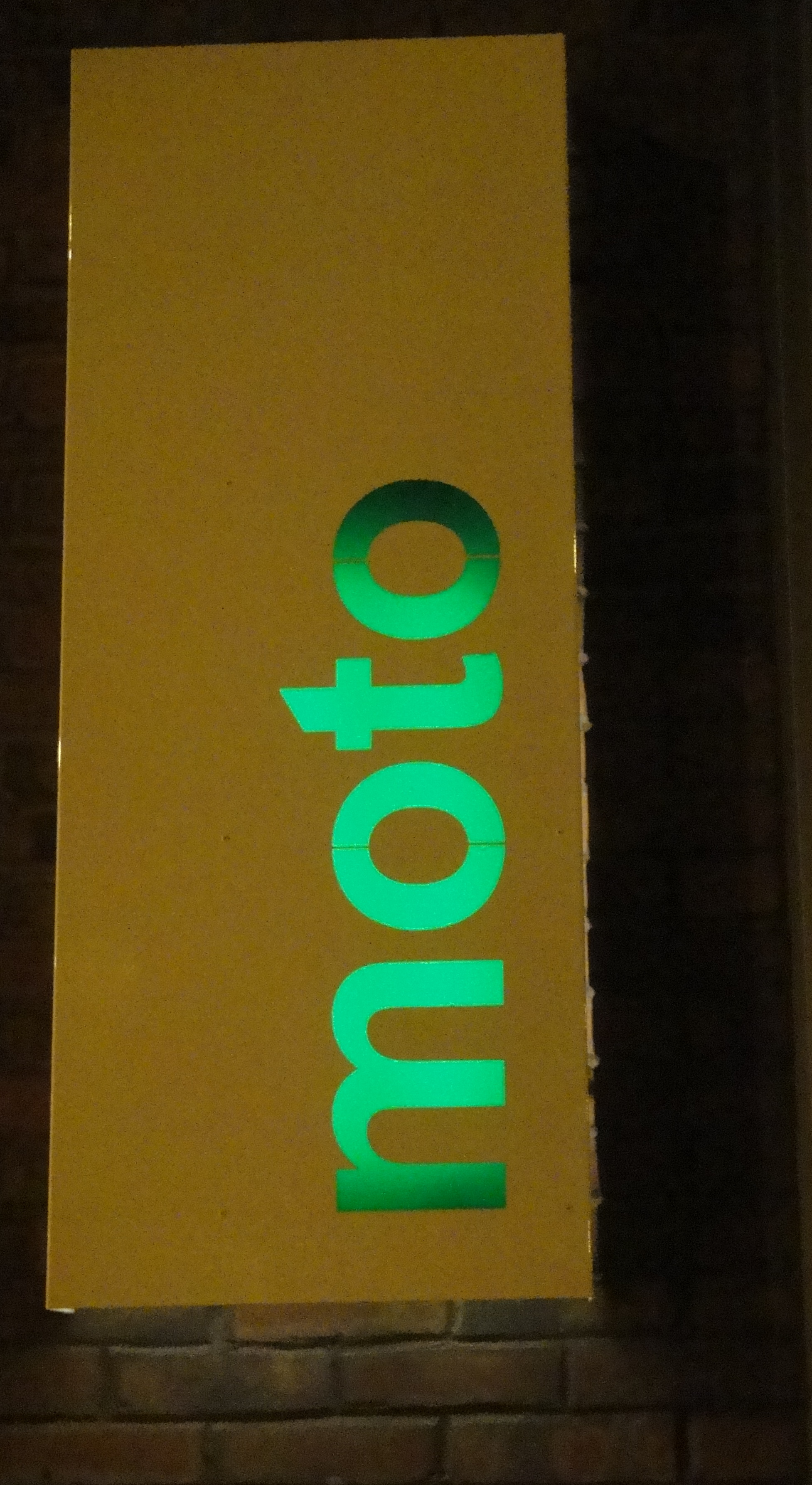 The sign outsite moto restaurant